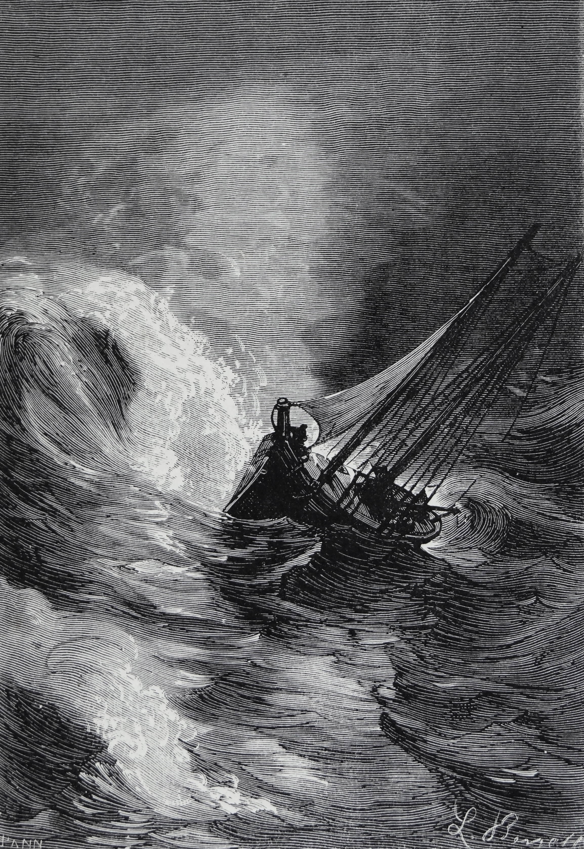 The "Tankadere" Was Tossed About Like a Feather. An ilustration from the novel "Around the World in Eighty Days" by Jules Verne painted by Alphonse de Neuville and/or Léon Benett.